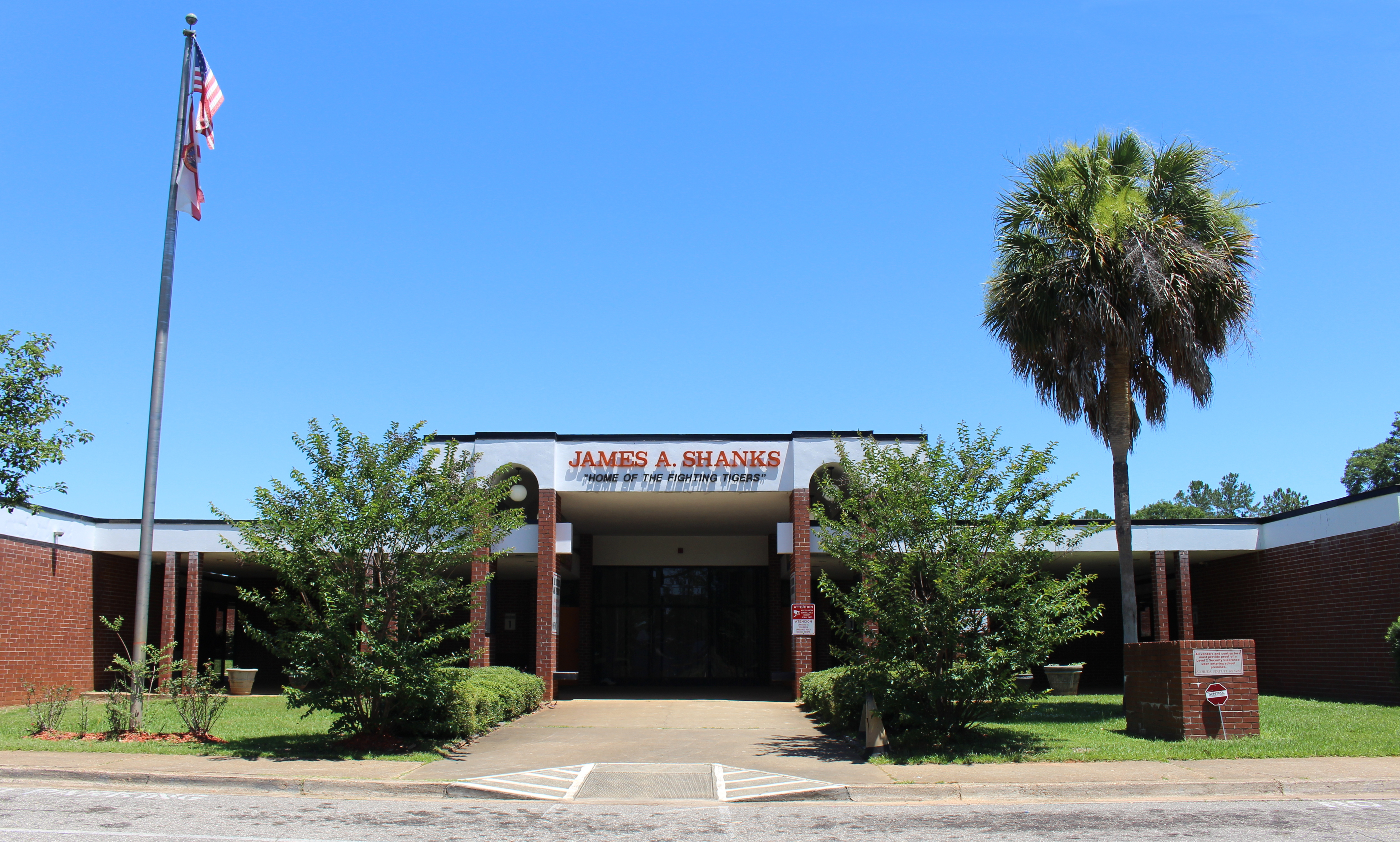 James A. Shanks Middle School (former James A. Shanks High School), Quincy, Gadsden County, Florida